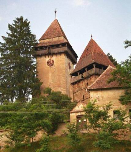 Church in Apold, Kirche in Trappold